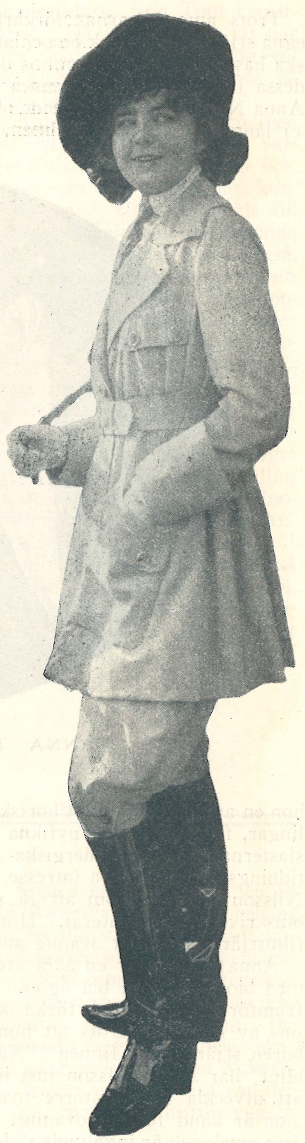 Violet Molitor (1899-1996), Swedish actress; here seen dressed for her part her first film, ' (1919).